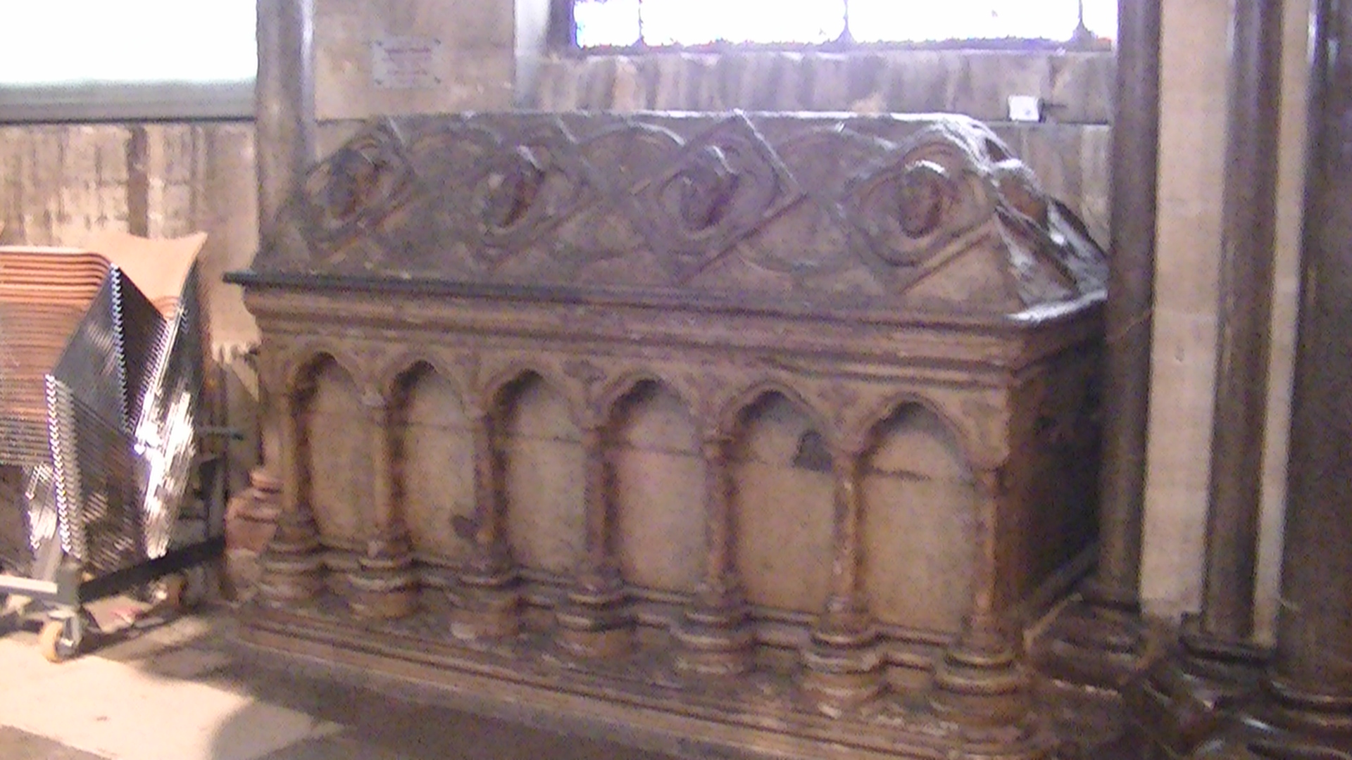 Tomb of Hubert Walter in Canterbury Cathedral